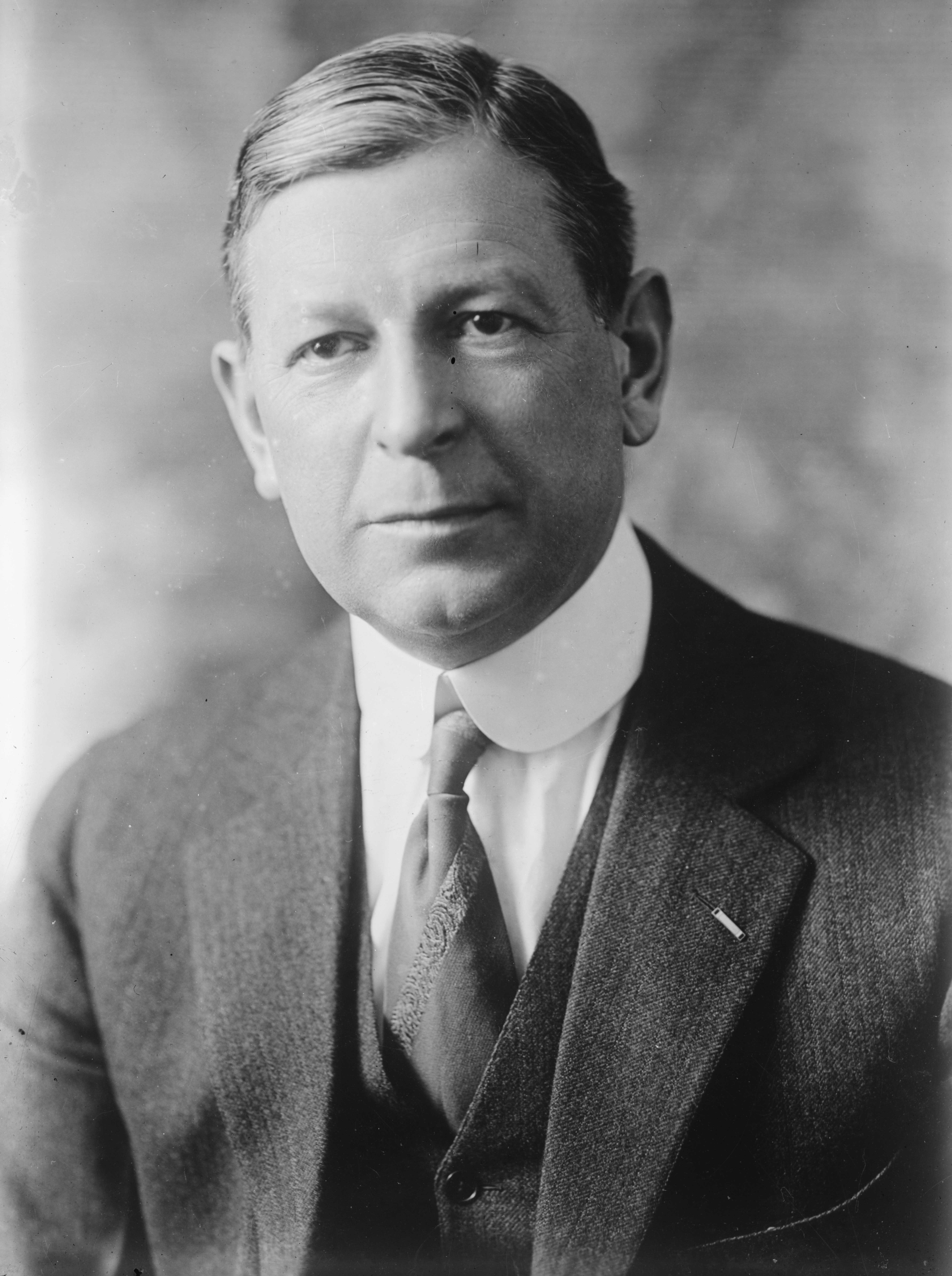 Dwight F. Davis, former Secretary of War.